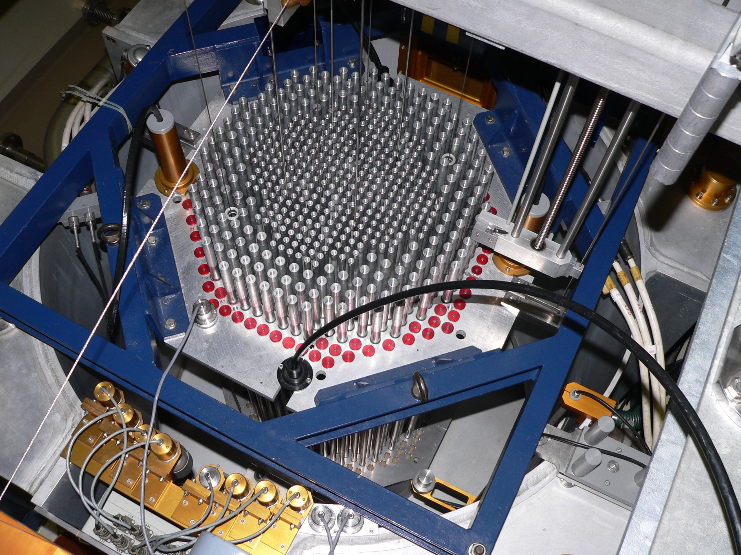 Nuclear installations at the EPFL CROCUS Reactor; CAROUSEL experiments; miscalenous experiments and manipulations; detectors and instruments. Core of the reactor. Note the strings and motors of the control rods (here engaged in the core), the water bassin (empty here) and the four expension vases which can evacuate the water from the bassin in less than a second (hence cutting off the reaction). Wholehearted thanks to René Frueh, chief of operations of CROCUS, for devoting a whole hours to open doors of this universe and explain technical details.